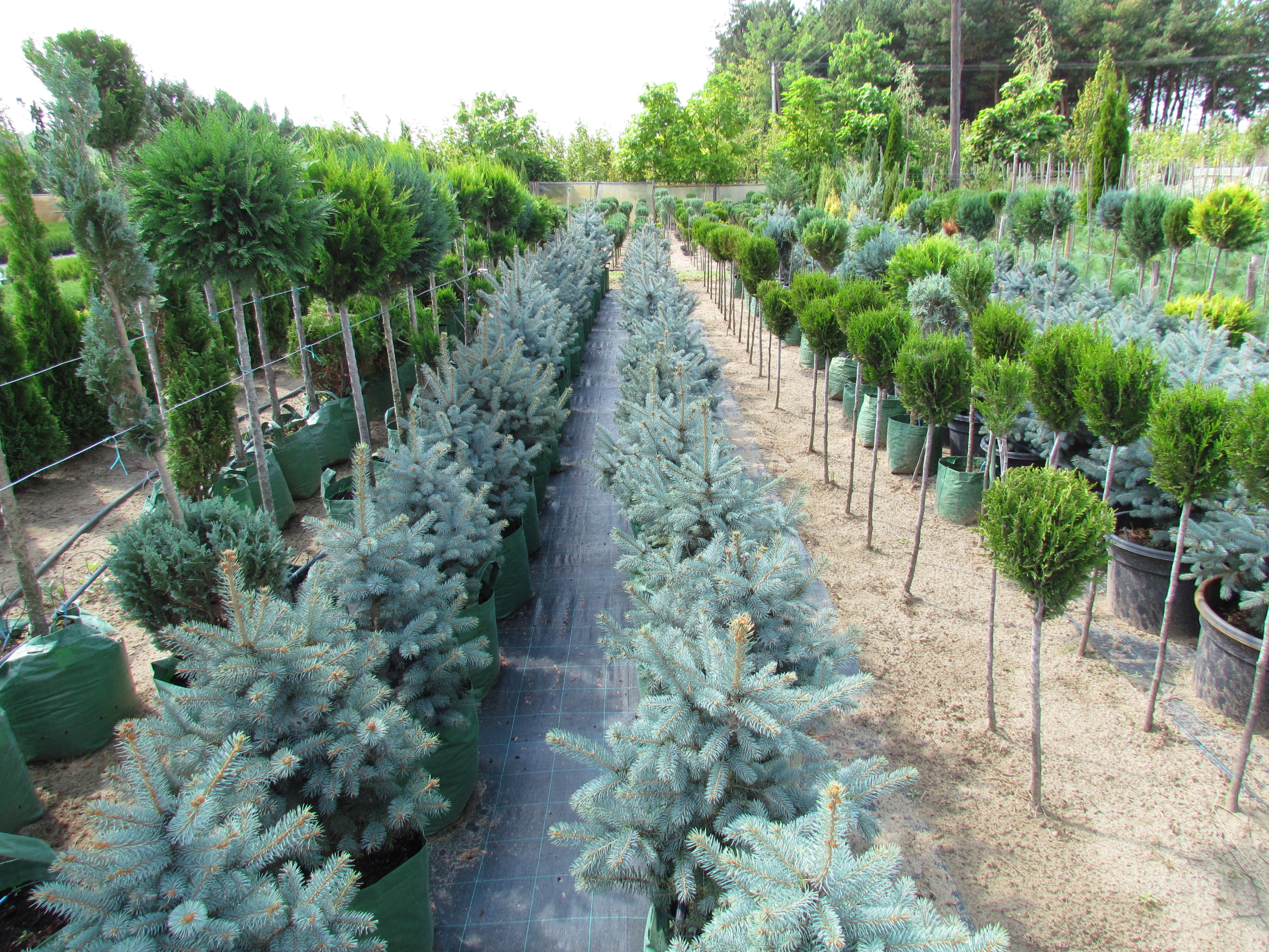 Serbian nursery dzambula, Subotica (photo: Mihailo Grbić, 2010).